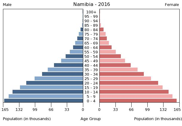 The population pyramid of Namibia illustrates the age and sex structure of population and may provide insights about political and social stability, as well as economic development. The population is distributed along the horizontal axis, with males shown on the left and females on the right. The male and female populations are broken down into 5-year age groups represented as horizontal bars along the vertical axis, with the youngest age groups at the bottom and the oldest at the top. The shape of the population pyramid gradually evolves over time based on fertility, mortality, and international migration trends.